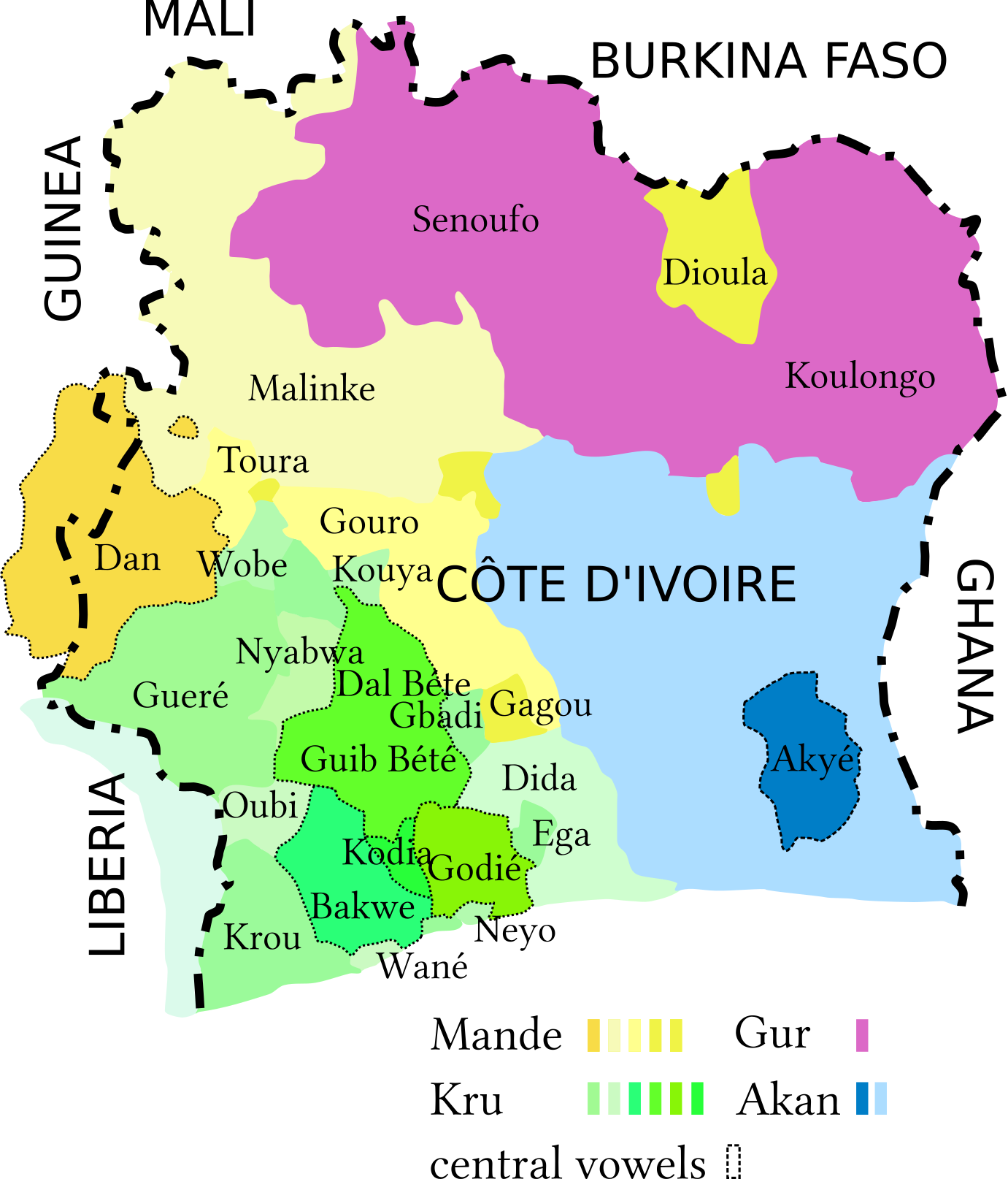 Map of the languages of Côte d'Ivoire